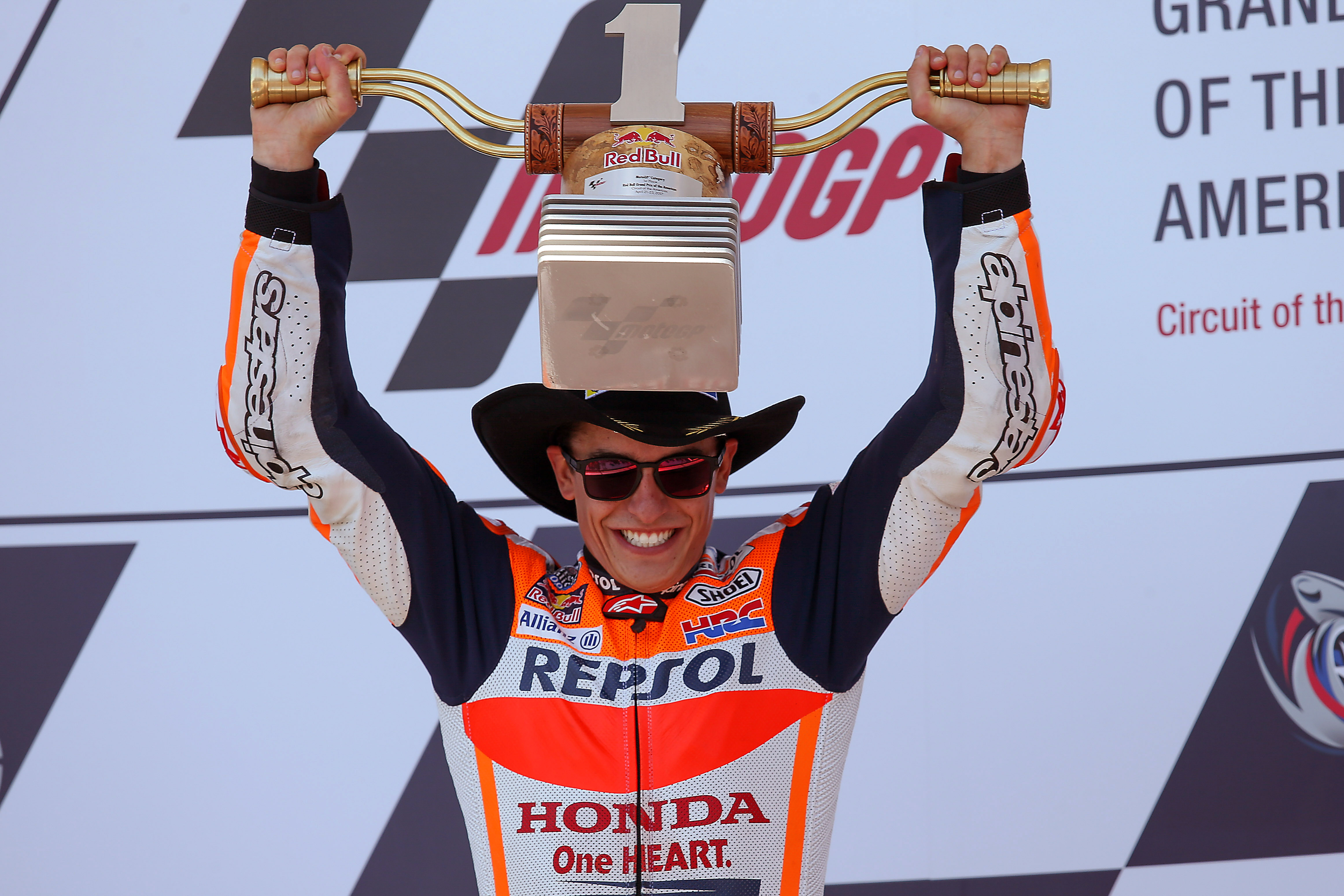 Marc Márquez, celebrating on the podium after winning the 2017 Grand Prix of the Americas.